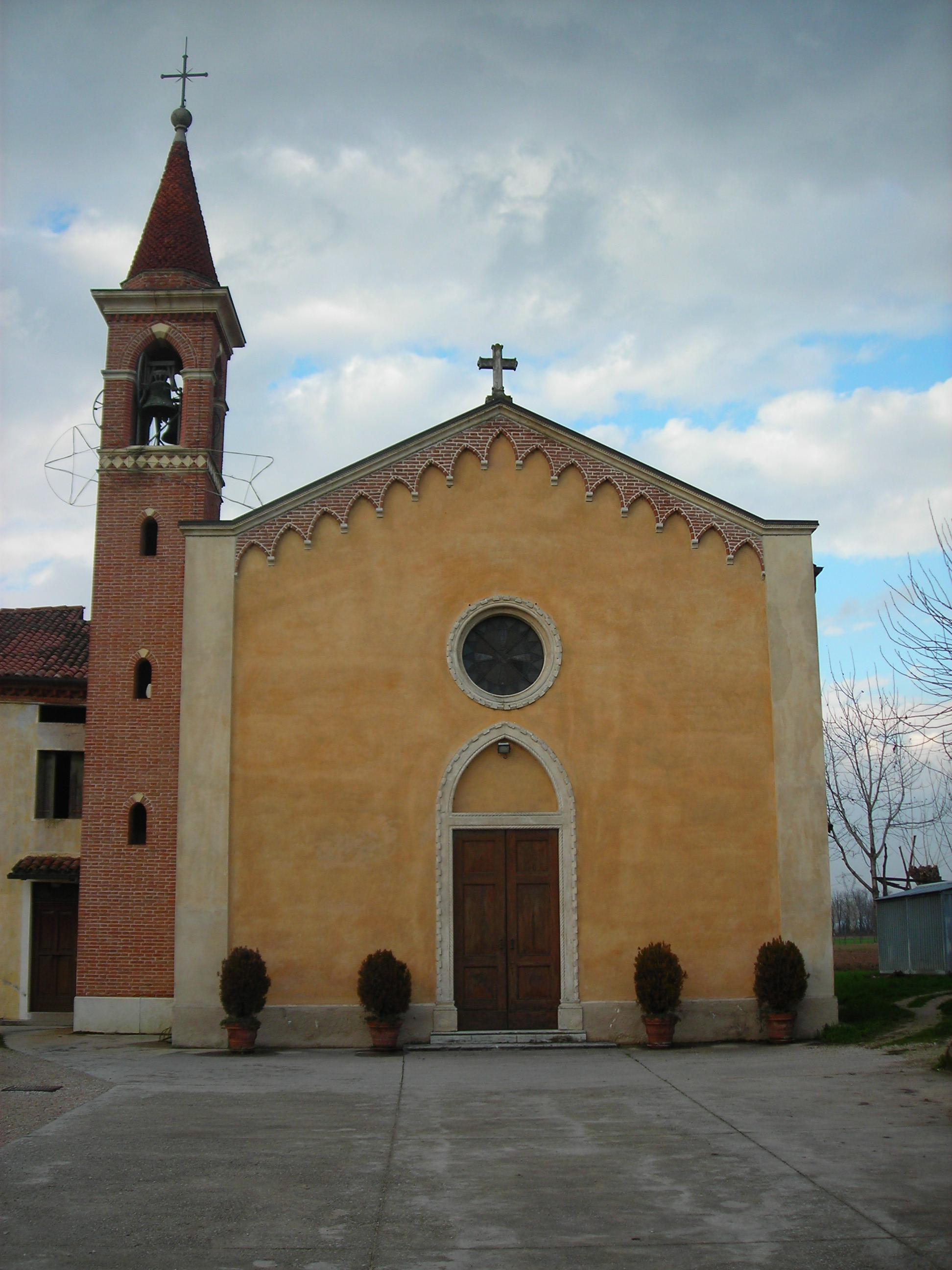 Santa Maria in Favrega Church, Motta di Costabissara, Vicenza, Italy